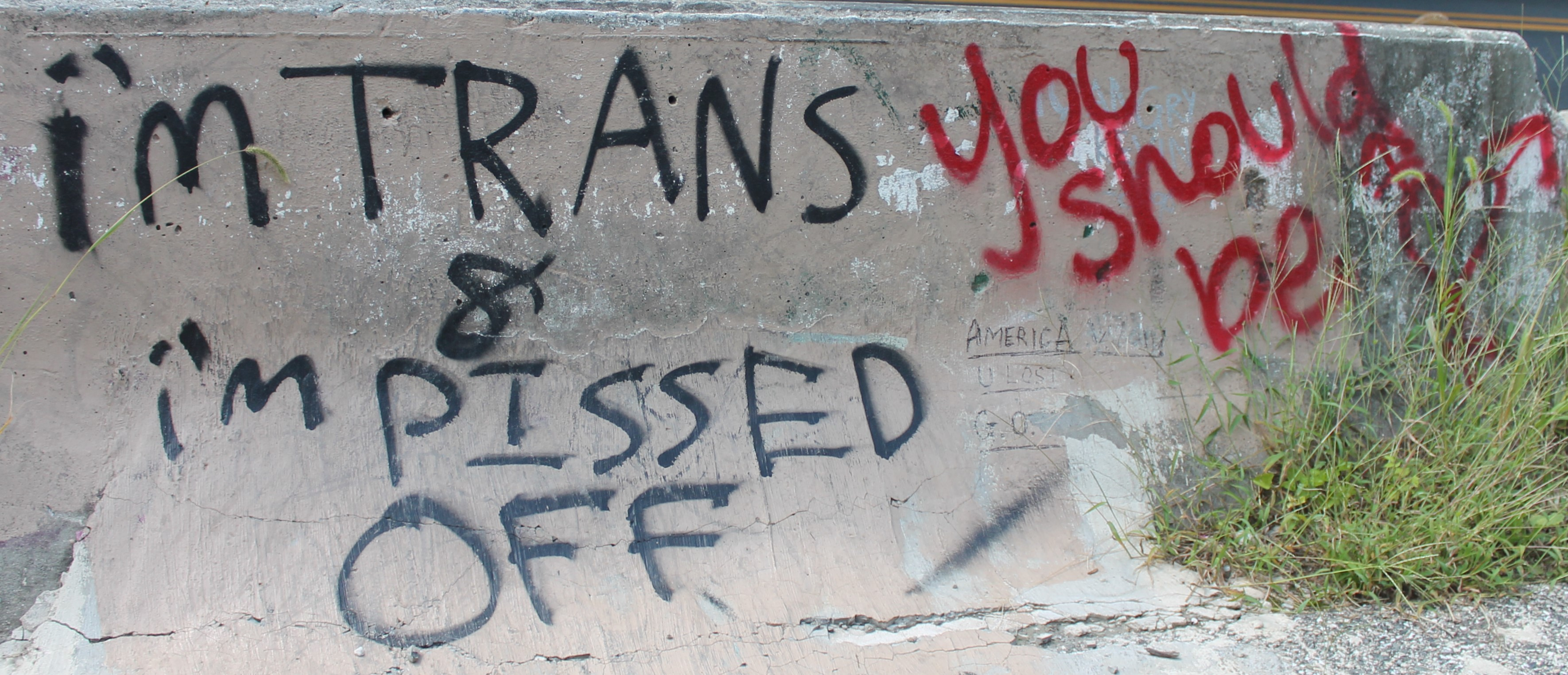 Graffiti in Baltimore, Maryland in which two trans persons express their unhappiness at the world they find themselves in.